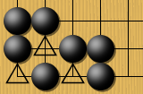 A simple situation to show what an eye in the game of go is.